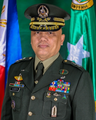 Official PA photo of Lt. Gen. Macairog Sabiniano Alberto AFP.